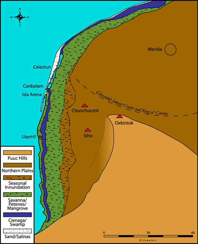 Regional map of the northwestern part of the Yucatan Peninsula highlighting major ecological zones and archaeological sites related to Chunchucmil.